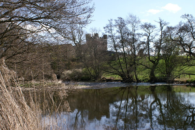 Yanwath Hall from Pokey Dub Yanwath Hall, looking across a pool on the River Eamont known locally as Pokey Dub.